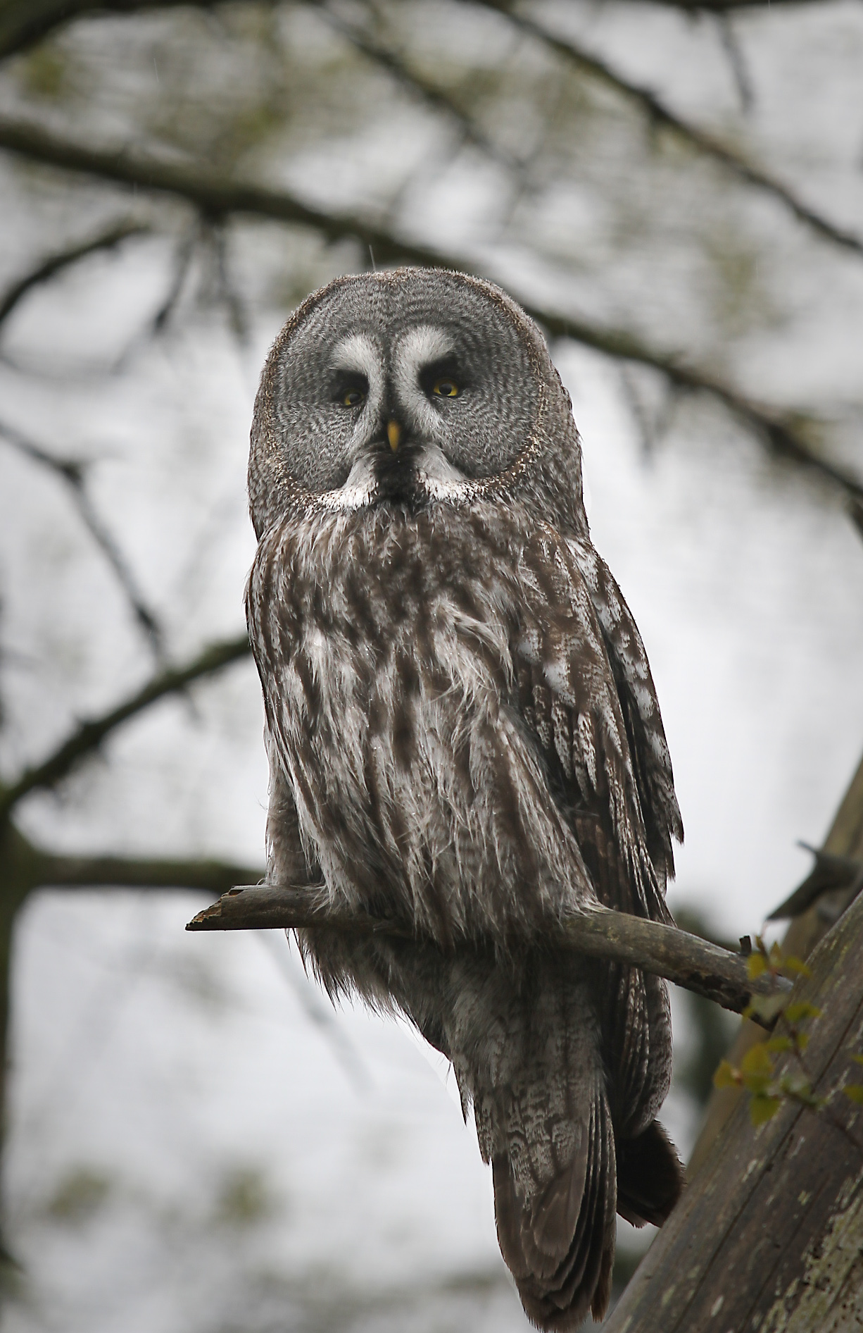 Great Grey Owl, Nordens Ark zoo